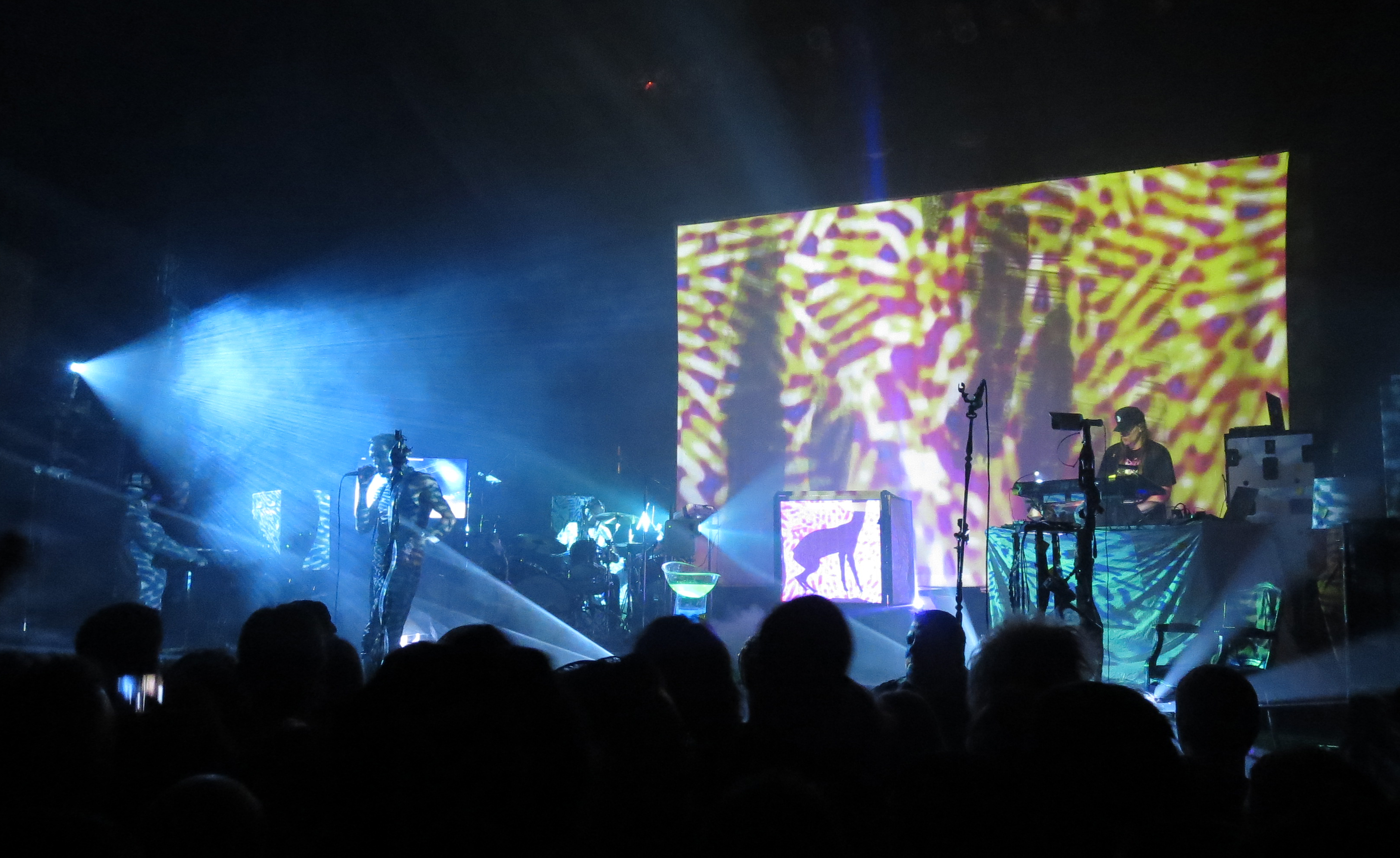 Skinny Puppy @ The Vic, Chicago 2/21/2014